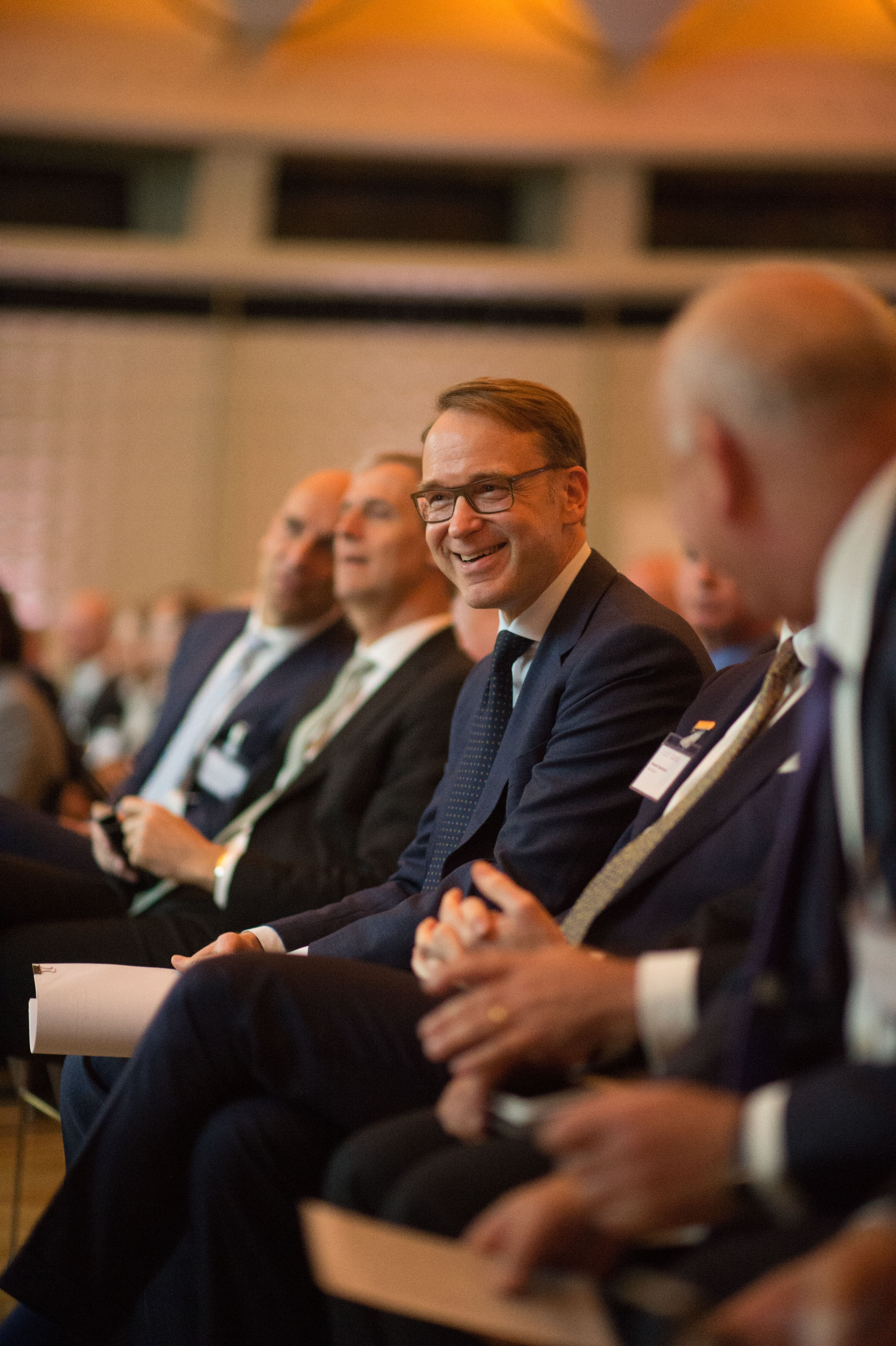 Bundesbank-Chef Jens Weidmann beim Bankentag 2017